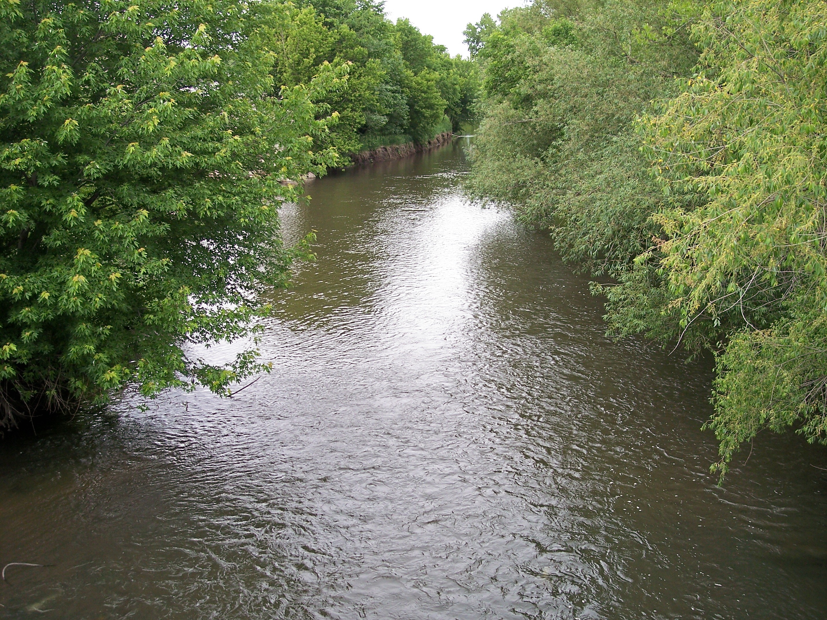 The Straight River as viewed downstream from Bridge Street in Owatonna, Minnesota